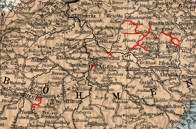 network of rail company Böhmische Commercialbahnen